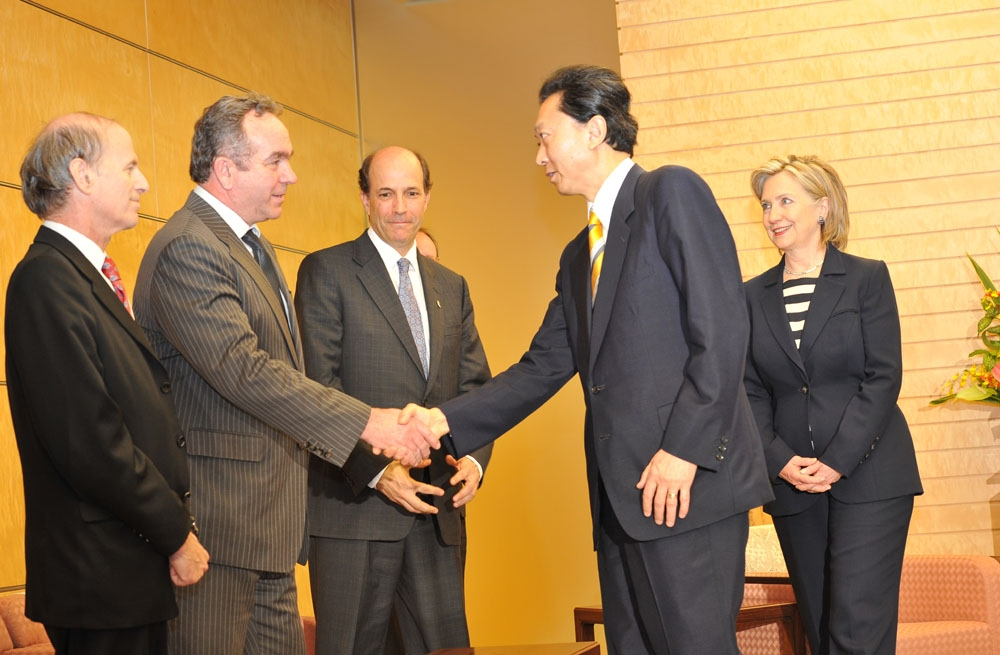 Hillary Rodham Clinton, Secretary of State, John Roos, Ambassador to Japan and Kurt M. Campbell, Assistant Secretary of State for East Asian and Pacific Affairs, met Yukio Hatoyama, Prime Minister, at the Prime Minister's Official Residence in Chiyoda Ward, Tōkyō Metropolis on May 21, 2010.